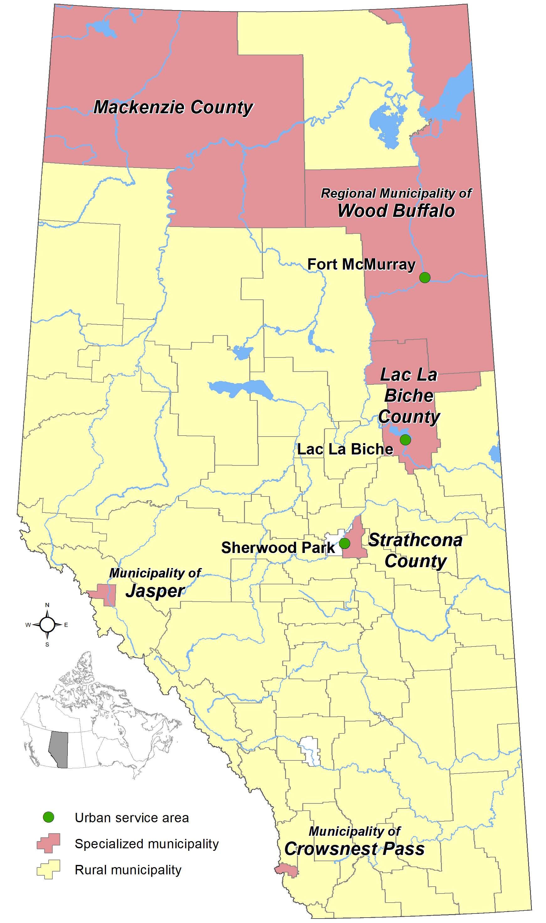 Map showing locations of Alberta's 6 specialized municipalities as of May 2020, with base reference features (major lakes and rivers).